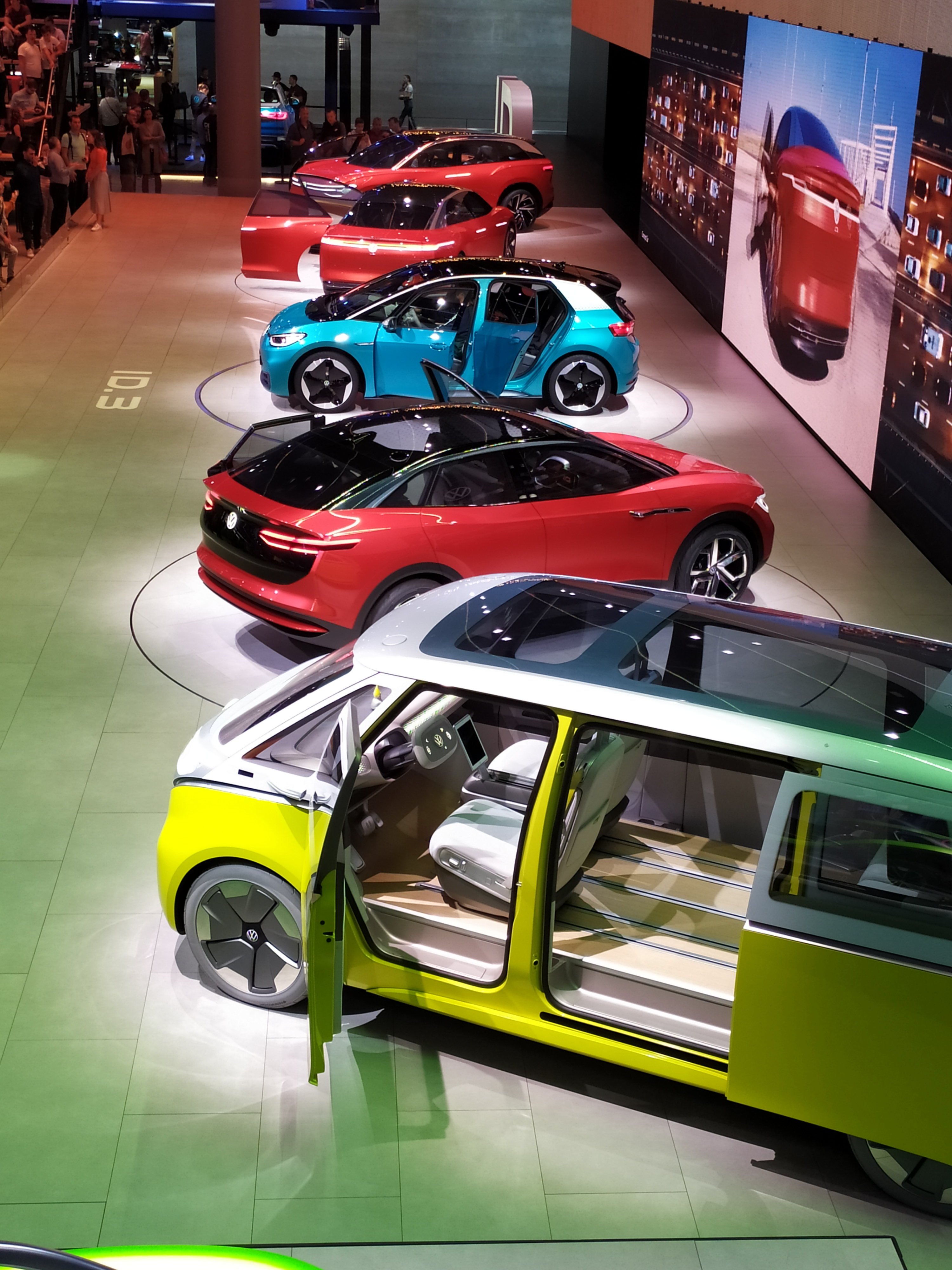 Volkswagen ID cars at IAA in Frankfurt 2019